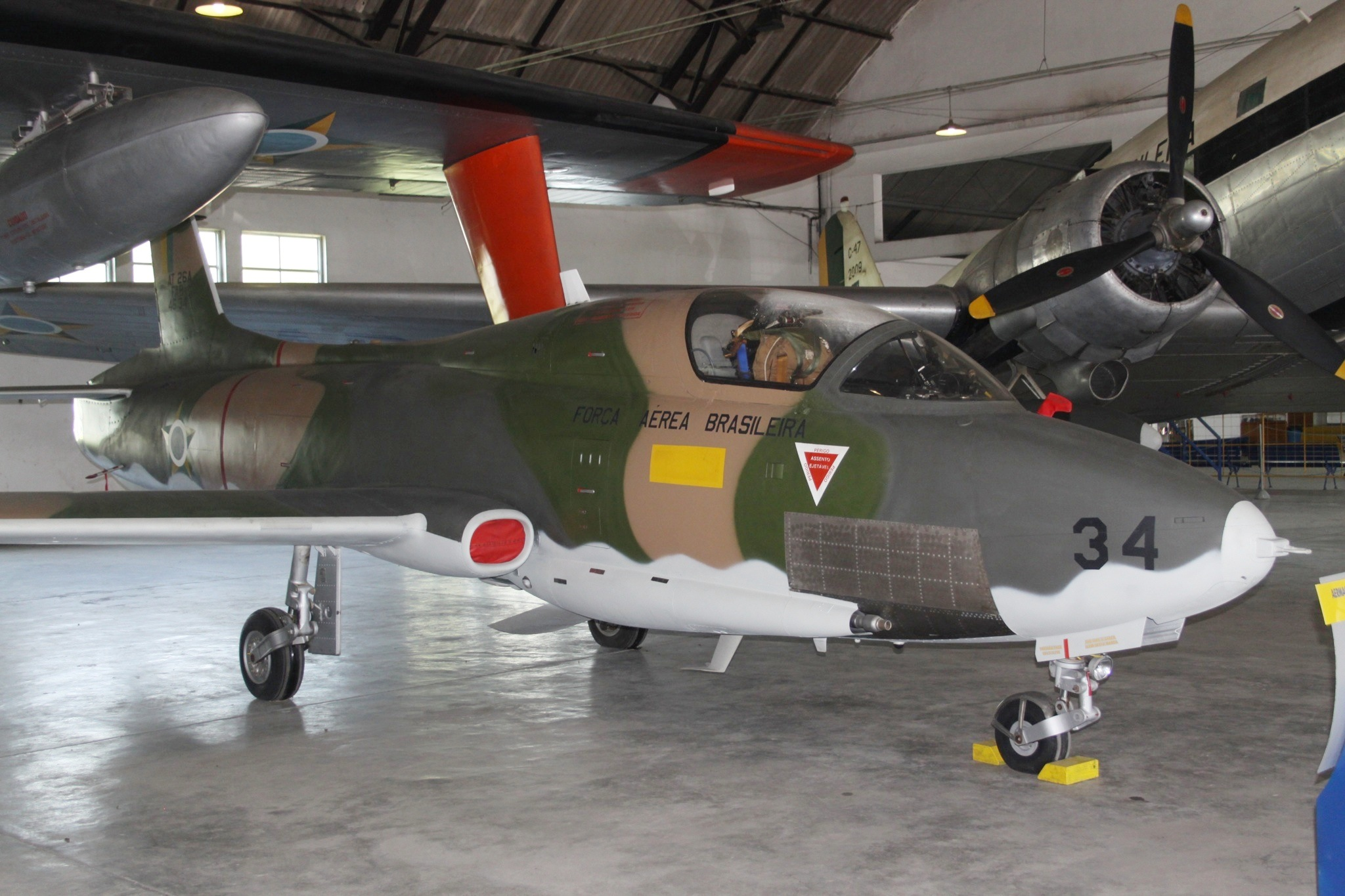 At Campo Dos Afonsos